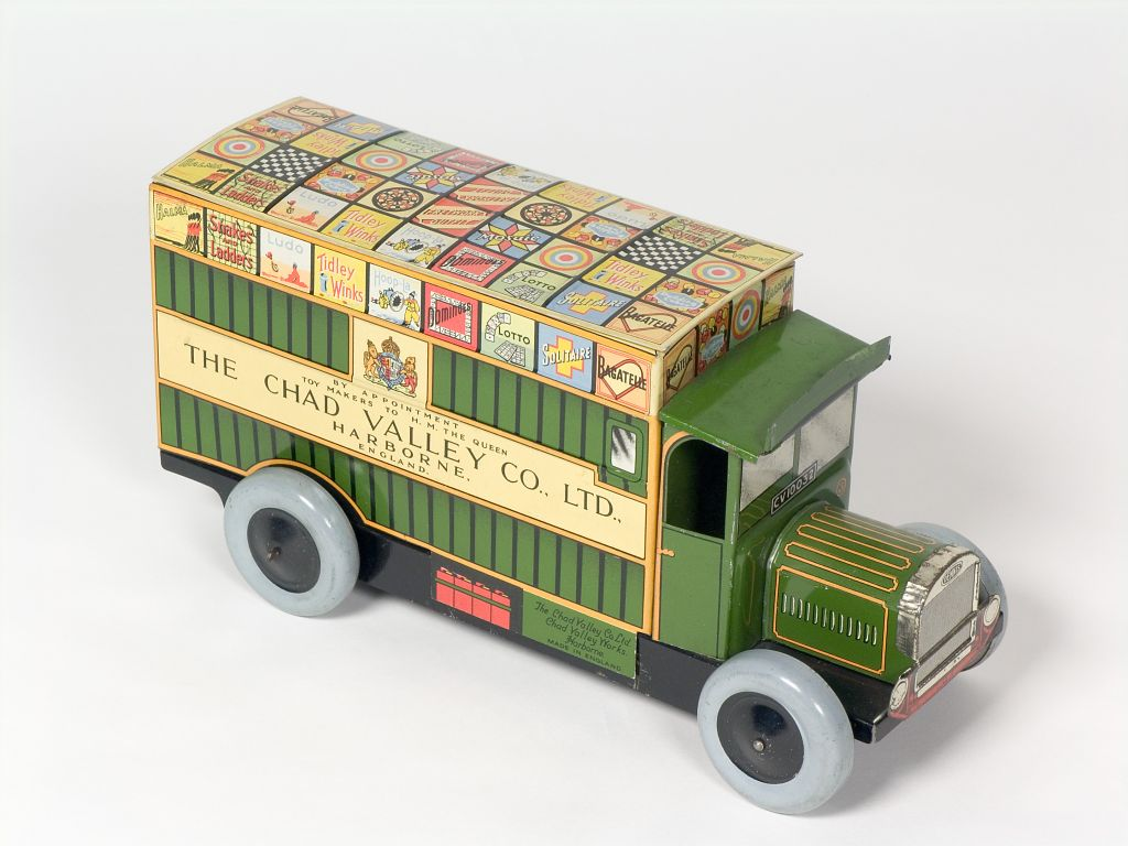 Clockwork, Dennis Delivery Van. Green with cream and yellow decoration. Opening rear door. Reg No: CV 10032. 'by Appointment to Her Majesty the Queen, Chad Valley Co Ltd, Harbourne' on sides. Made by Chad Valley of Birmingham, England. Editing Undertaken: Unsharp Mask